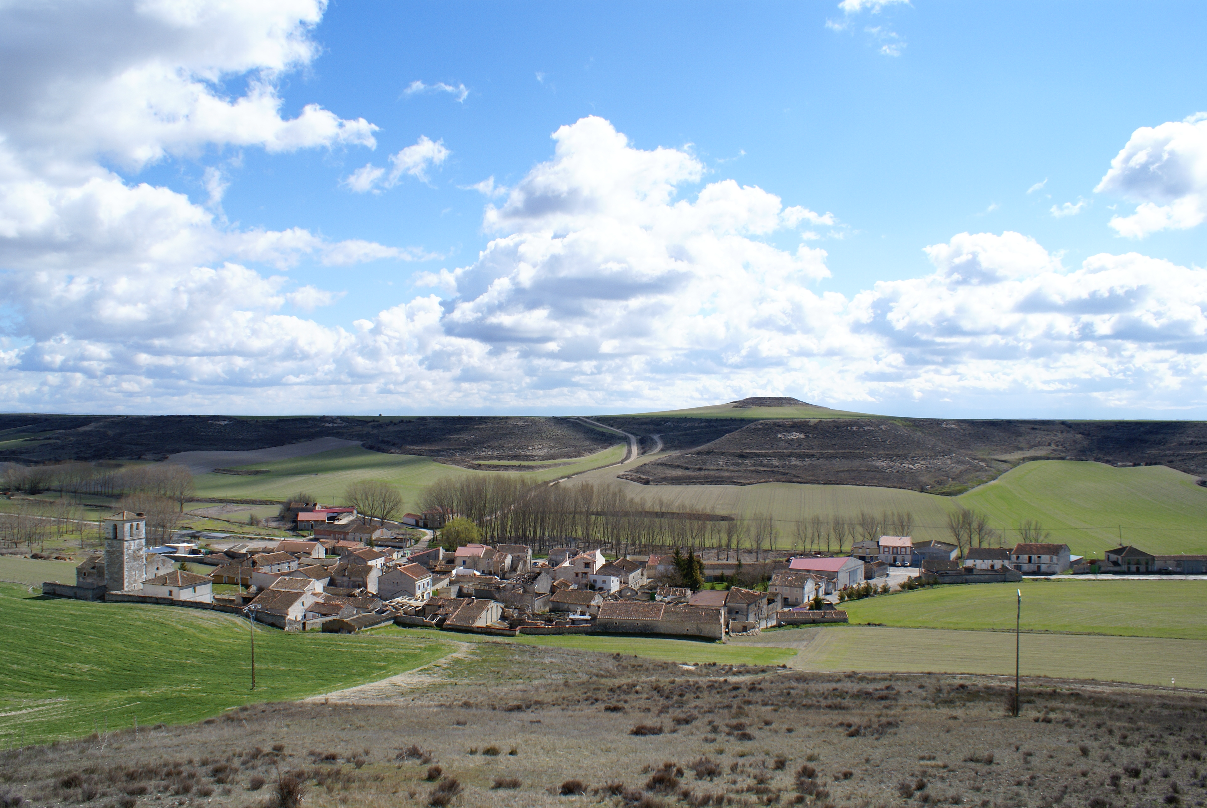 General view of Dehesa de Cuéllar, a little village in the province of Segovia, Spain.